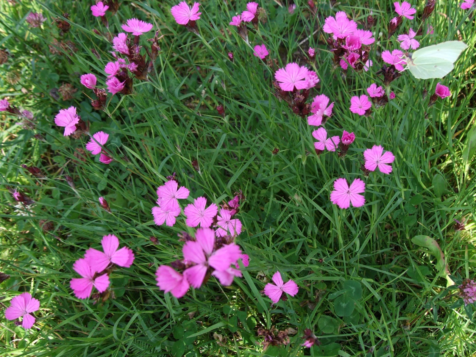 Dianthus carthusianorum (pl. goździk kartuzek), habitat: Dolina Rohacka, West Tatra Mountains